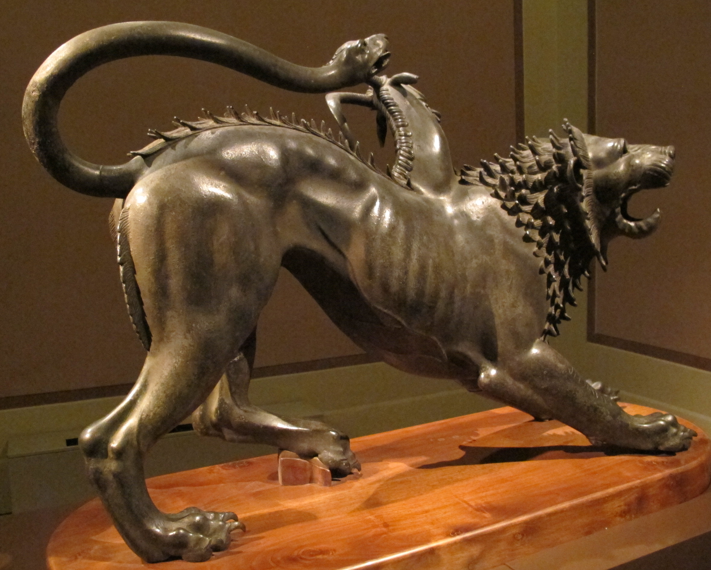 Etruscan bronze statue depicting the legendary monster. It was originally part of a group with Bellerophon and Pegasus. On the right leg is engraved the dedicatory inscription to Tinia.